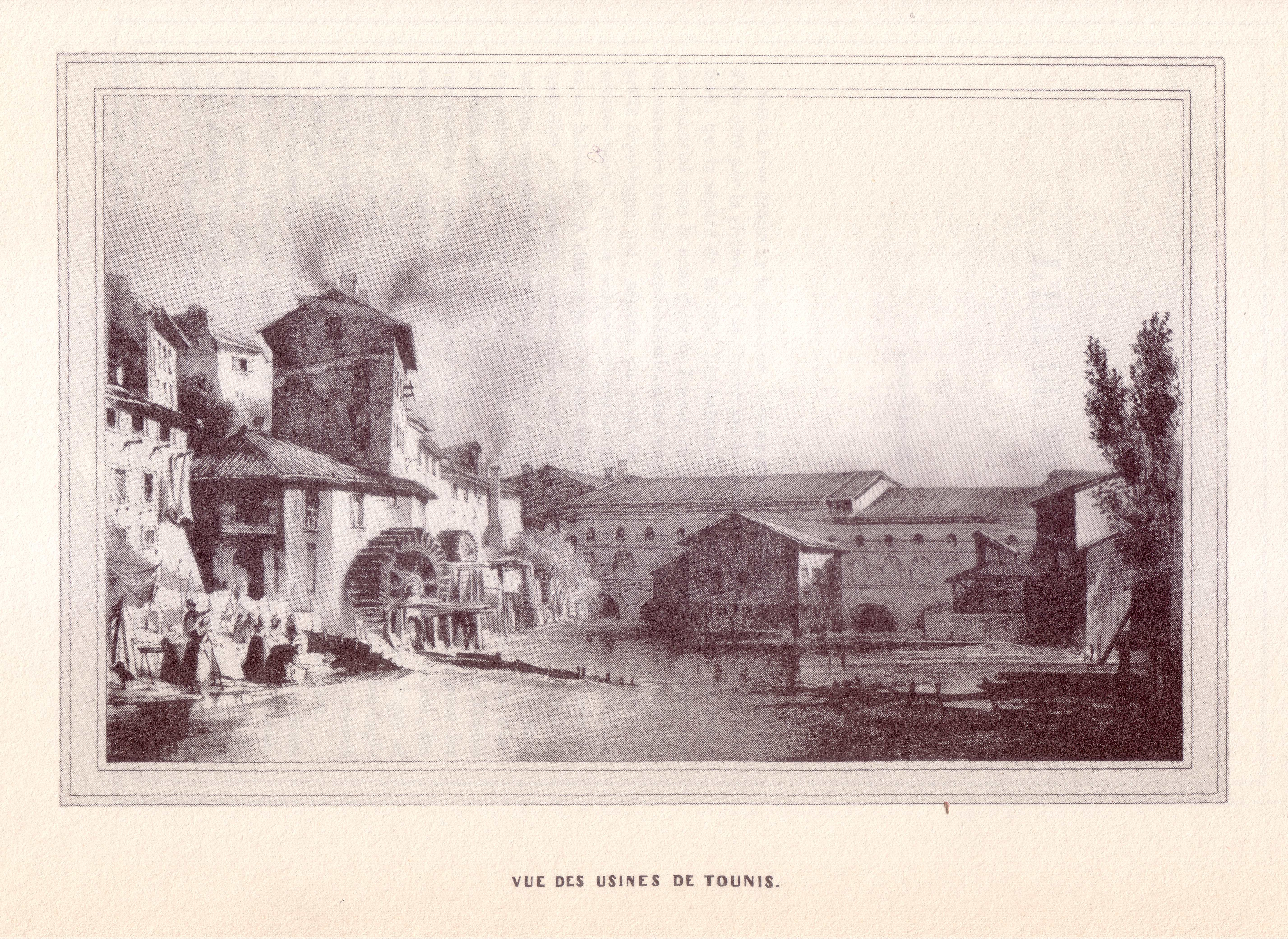 19th century drawings of Toulouse.